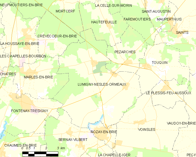 Map of French municipality Lumigny-Nesles-Ormeaux